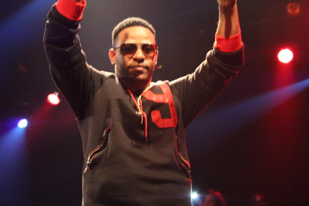 Eric Bellinger performing at the El Rey Theatre in December 2013.